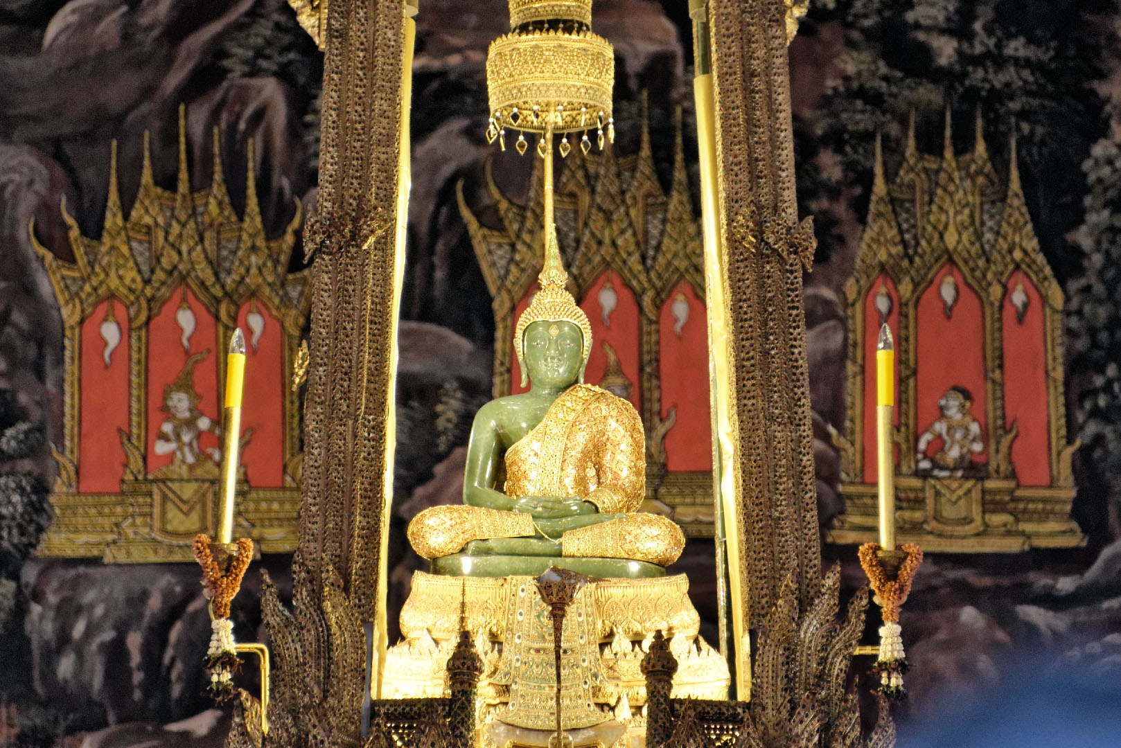 Image of Emerald Buddha in Rainy Season Vestments